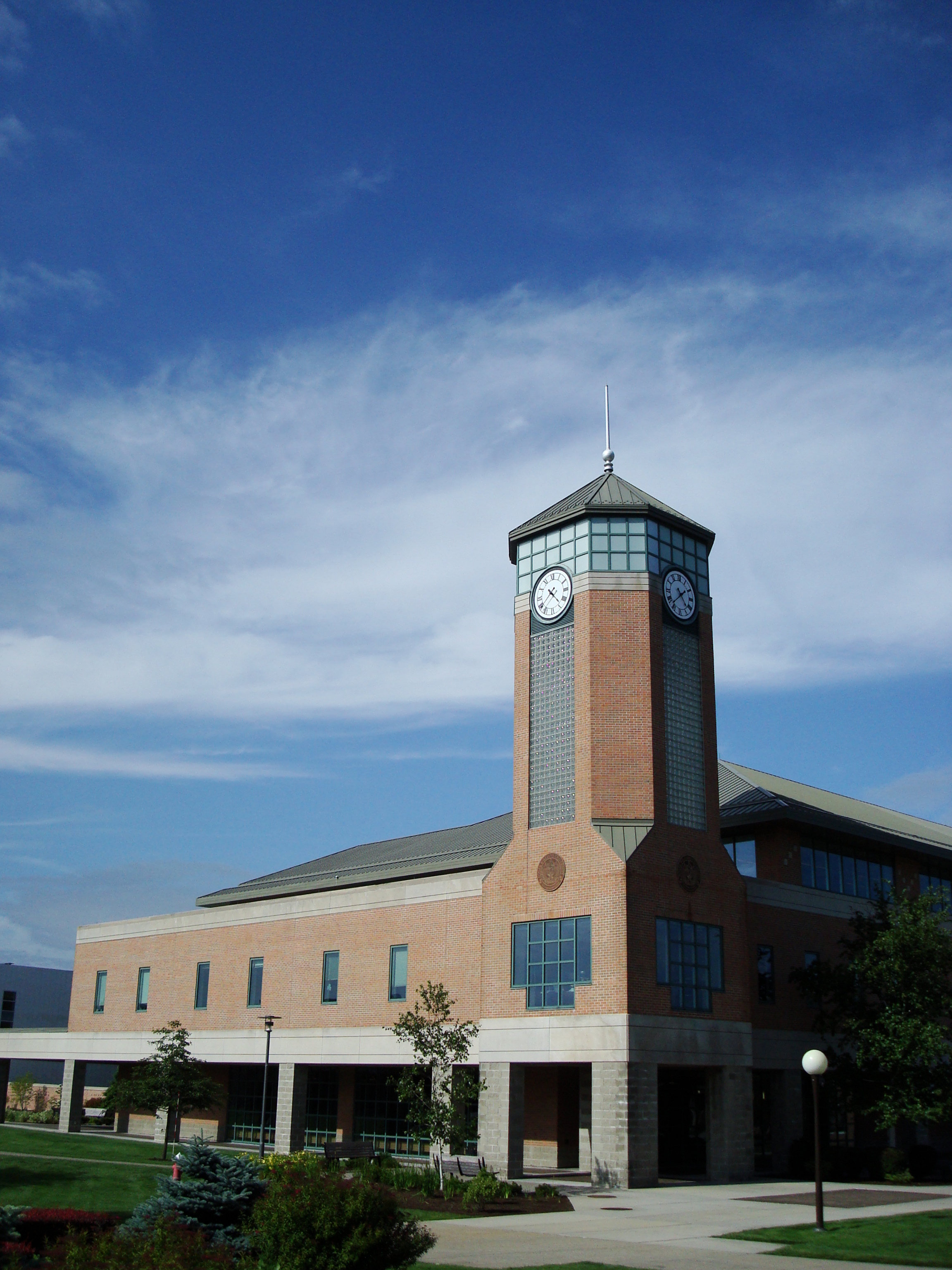 The clock tower of University Library at Roger Williams University